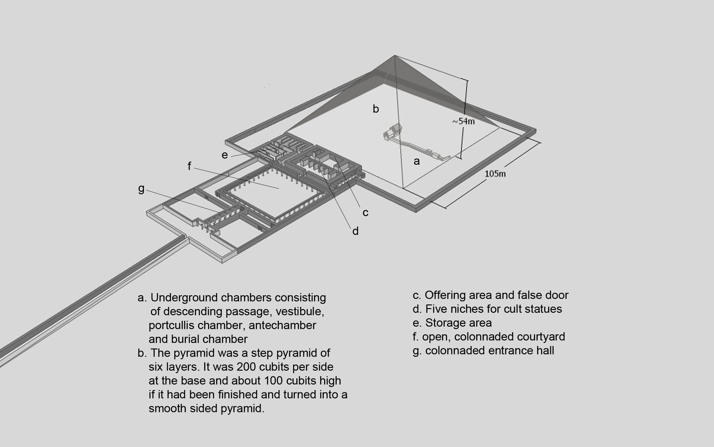 Isometric view of the pyramid of Neferirkare taken from a 3d model